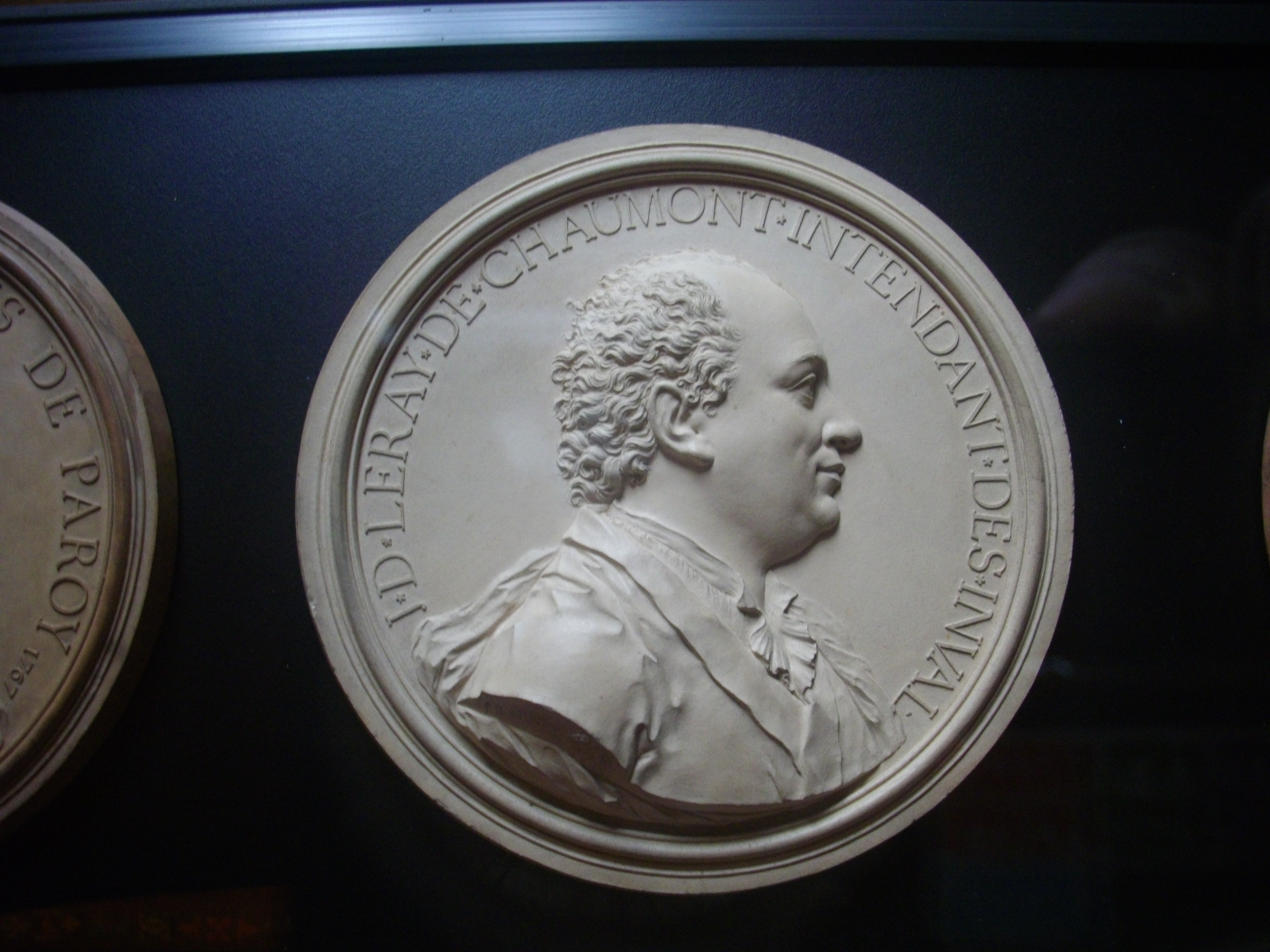 Chaumont-sur-Loire castle (Loir-et-Cher, France), king's room .